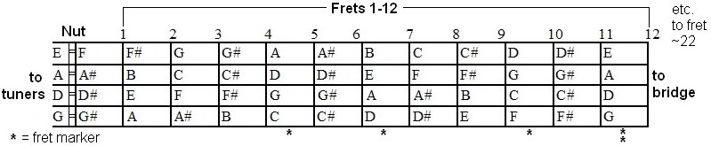 View of a mandolin fretboard from nut through 12th fret (one octave). This helps to illustrate mandolin tuning & chord fingerings.